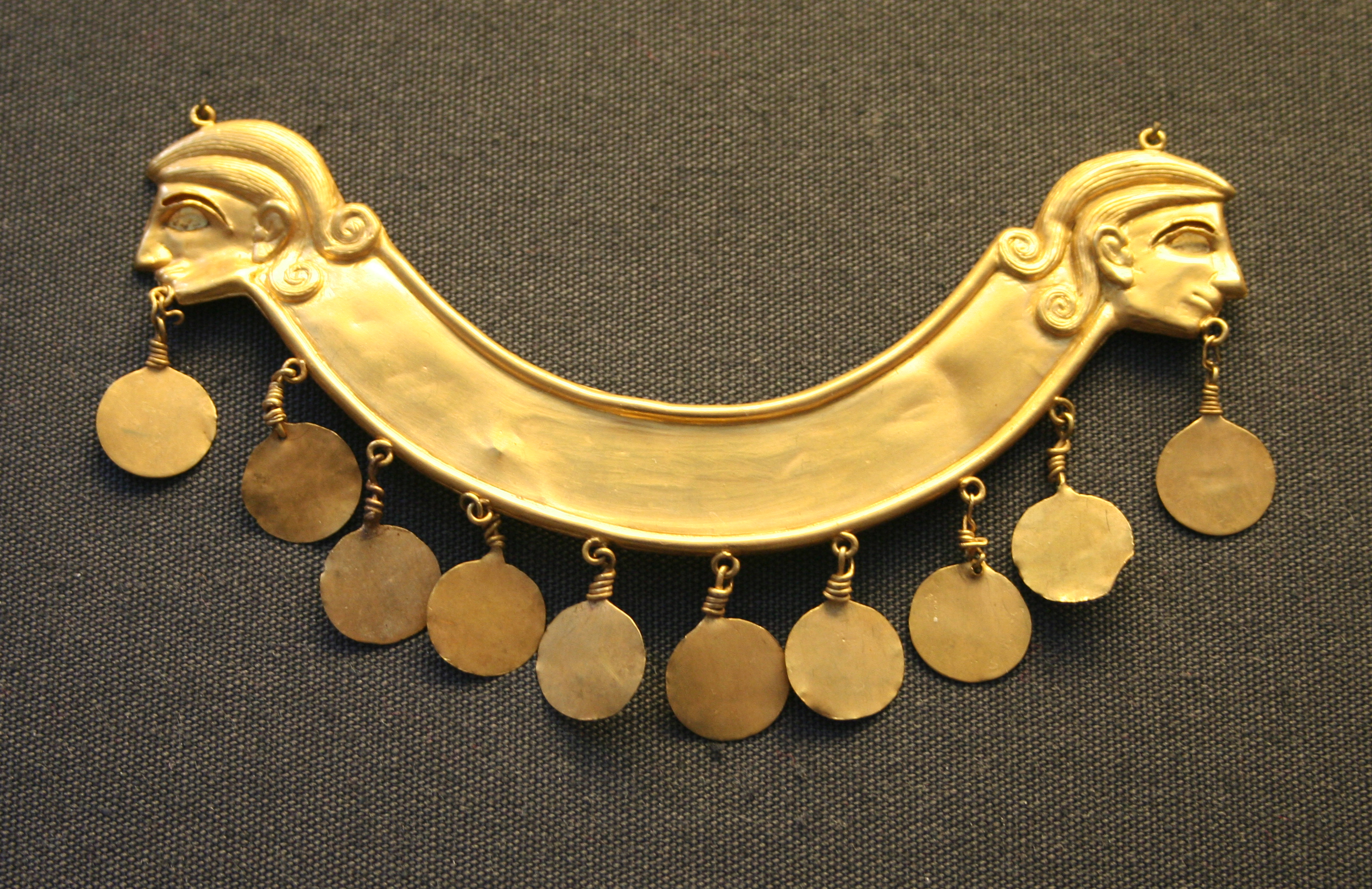 Part of the Aegina treasure. This golden ornament consists of an elongated curved plate with human heads at both ends. Eyes and eyebrows of the heads had originally been inlaid, probably with lapis lazuli. Ten disks are hanging from it on short chains. Two small rings on top of the heads mean that it was worn on a string around the neck of the wearer. British Museum Catalogue Jewellery #761. Description after Higgins: The Aegina Treasure, 1979